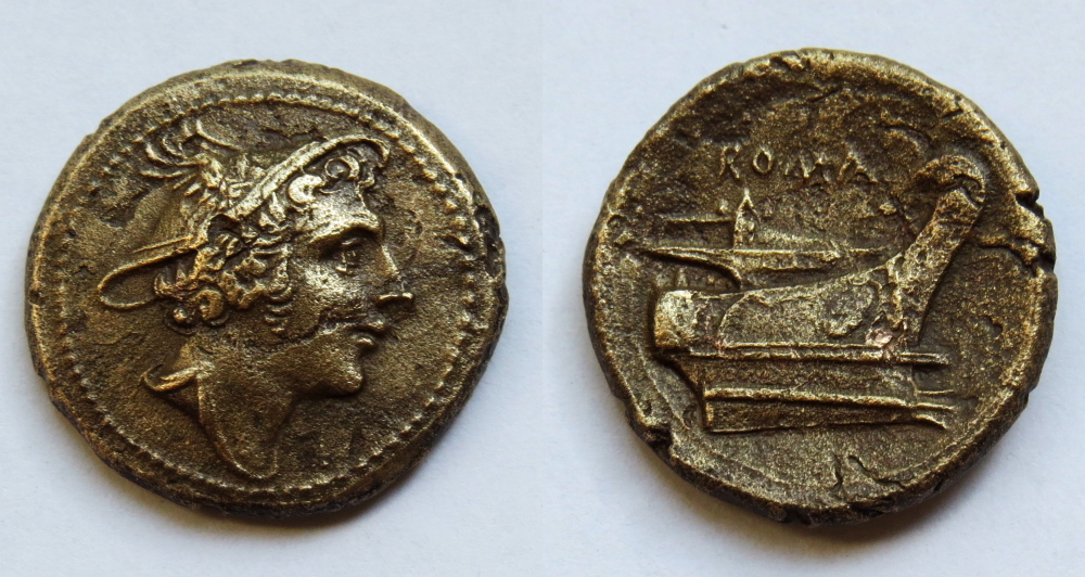 Roman Republican “Semuncia”, attributed 215-211BC, (bronze, weight 5.1 g, diameter 20 mm). • Obverse: Head of Mercury wearing winged petasus, facing right; • Reverse: Prow of galley, facing right, ROMA above.